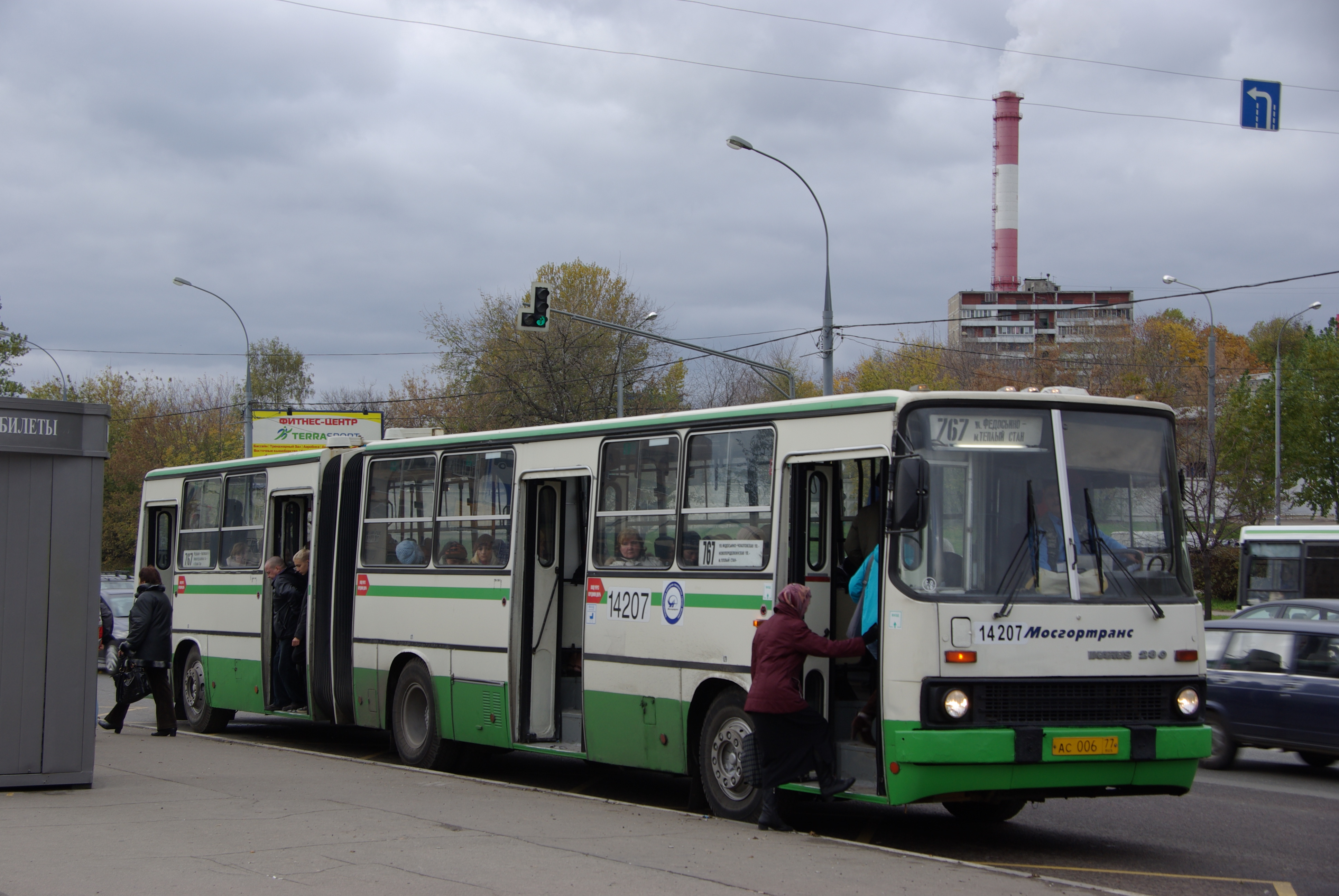 Moscow bus Ikarus-280.33M 14207_20101016_0565